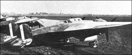 Italian Breda Ba.88 ground-attack aircraft